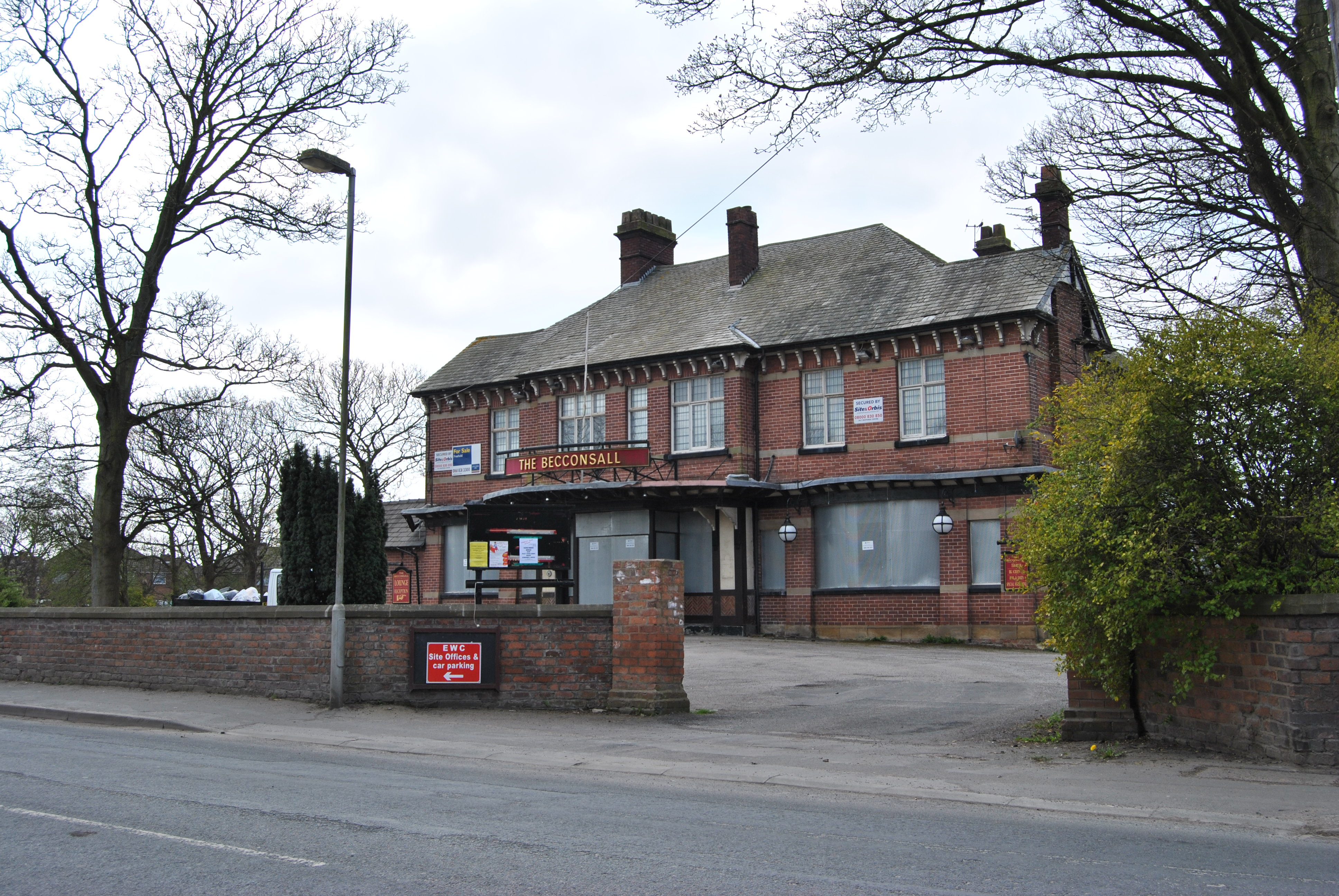 The Becconsall Pub derelict in April 2010 in the village of Hesketh Bank